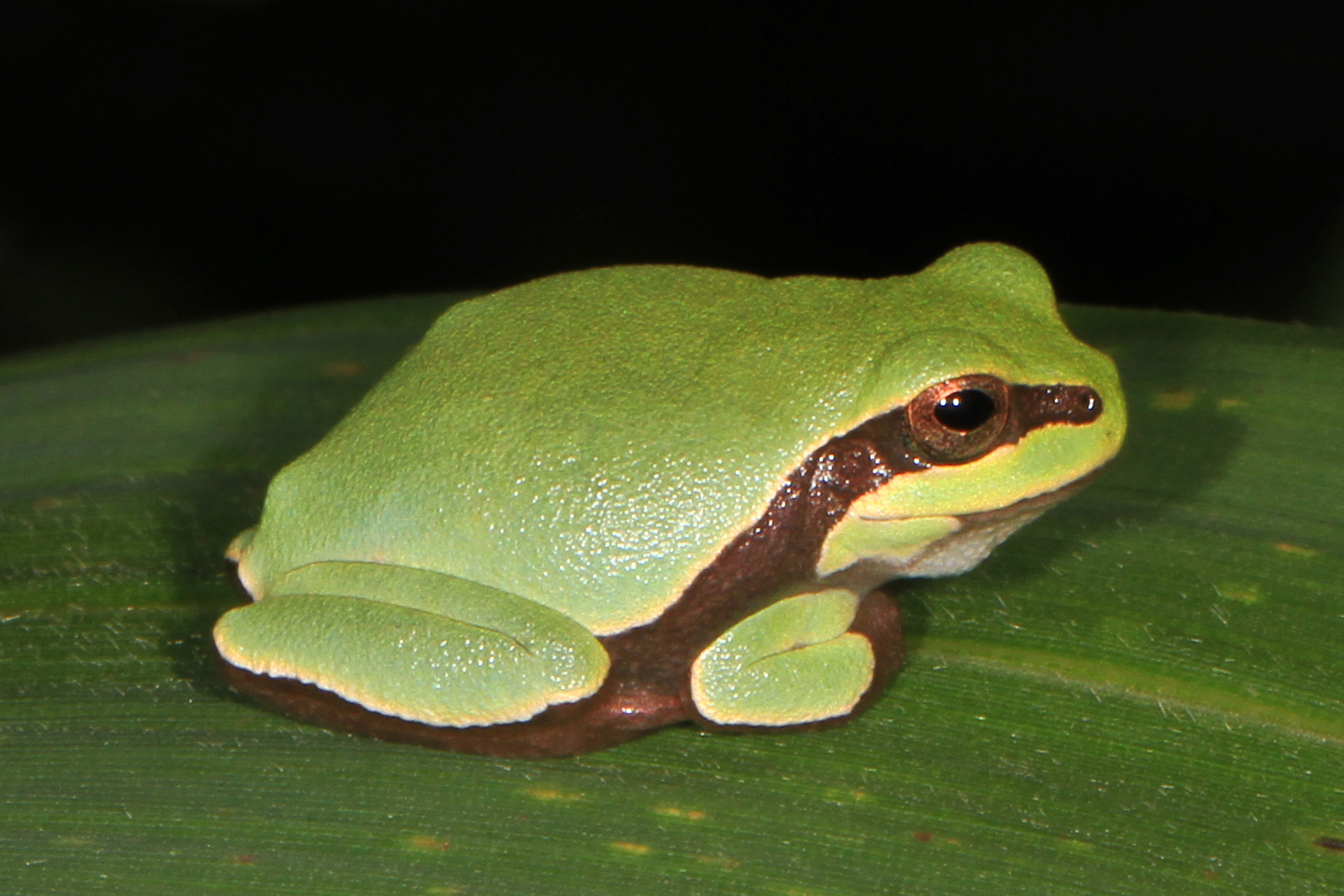 Pine Barrens Tree Frog - Hyla andersonii, Carolina Sandhills National Wildlife Refuge, McBee, South Carolina